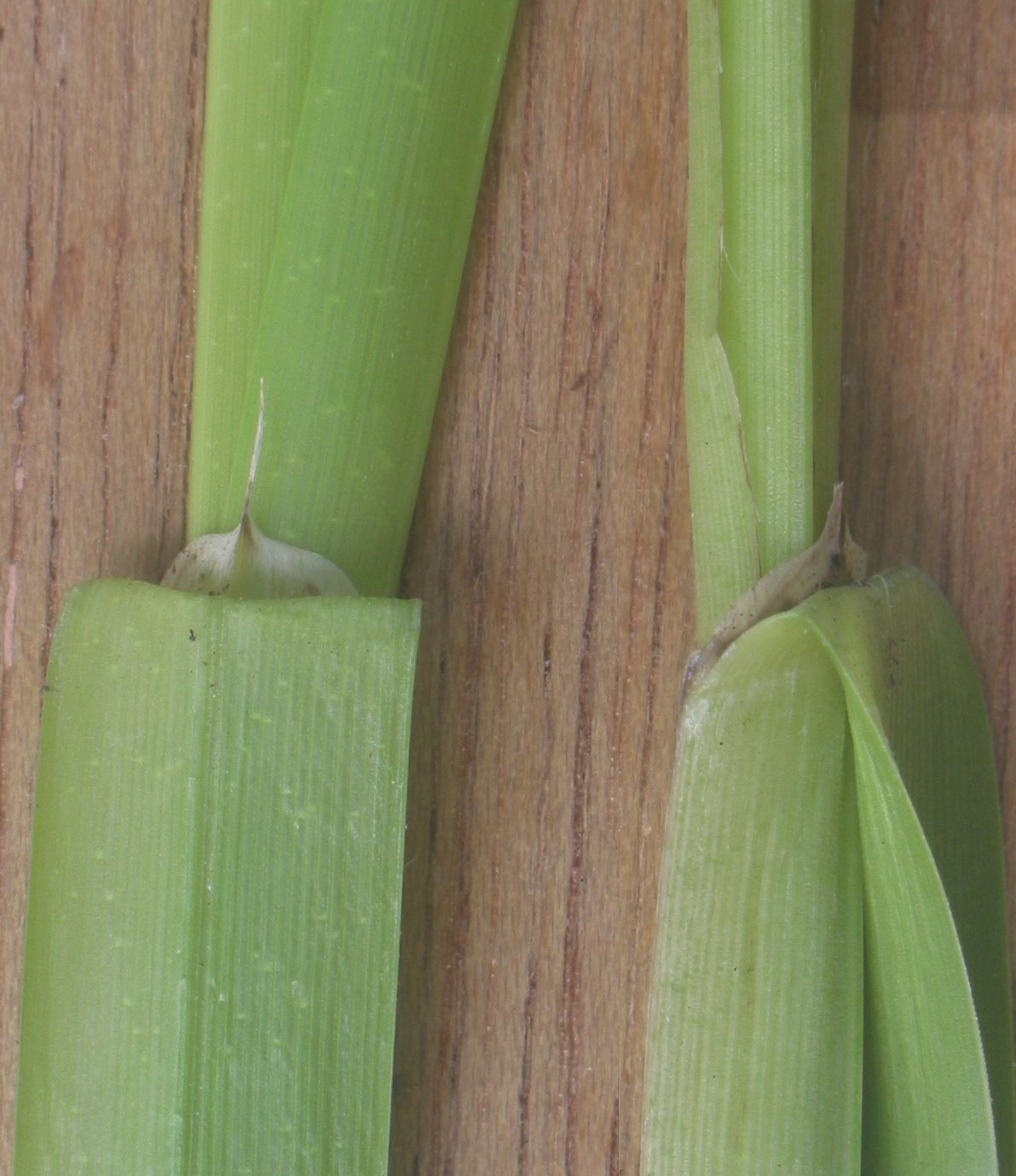 Glyceria maxima ligula